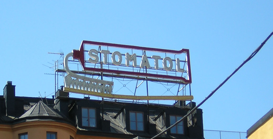 The Stomatol advertising sign at Slussen, Stockholm.